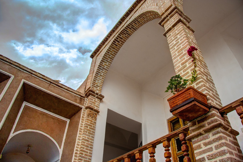 نمایی از ساختمانی واقع در شهر قدیمی اردکان عکس: امیررضا توسلی